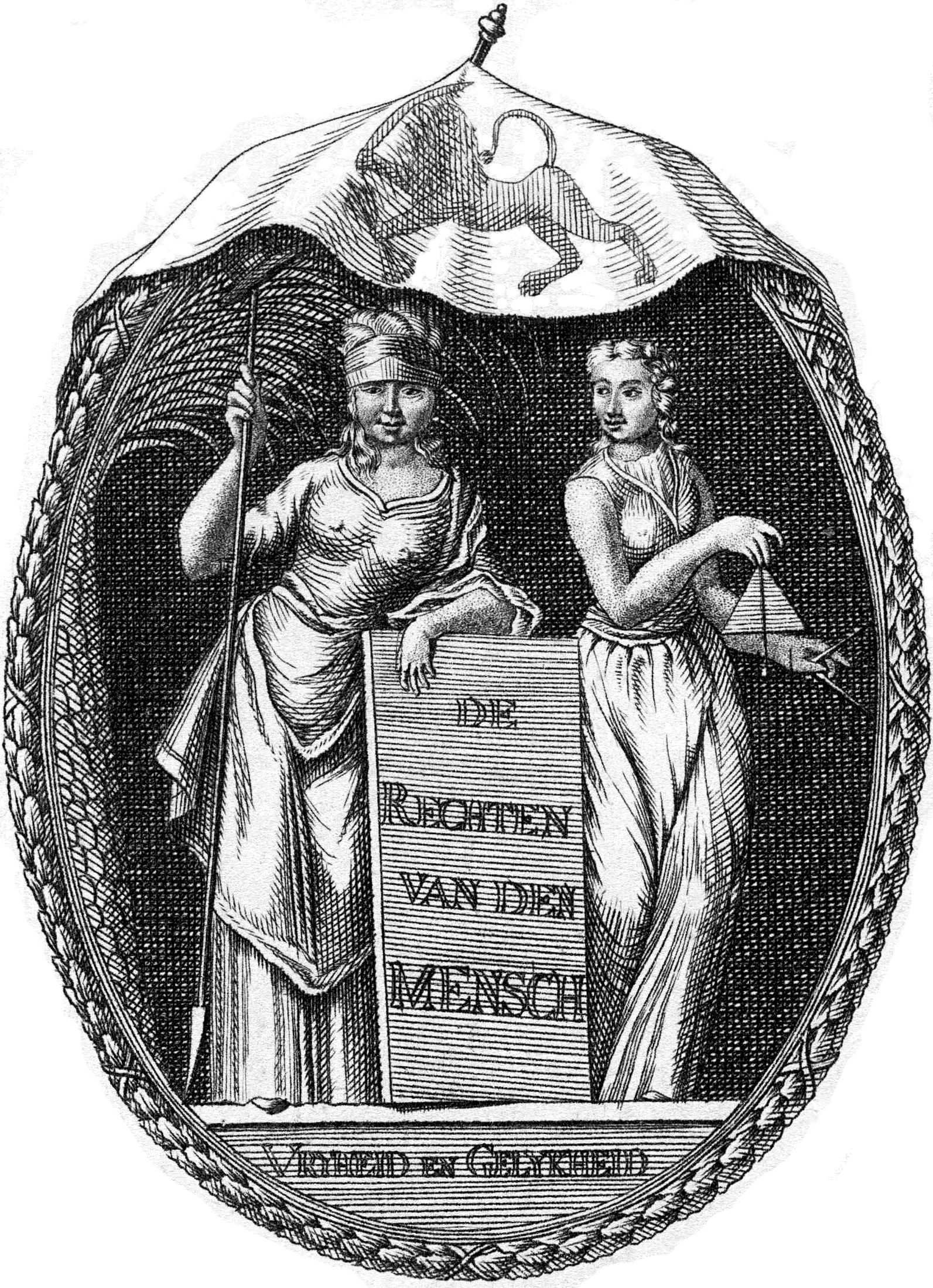 The shield with the emblem of Equality, depicted by Freedom and Equality standing at both sides of 'The Rights of Men' (Dutch: De Rechten van de Mensch). Was part of decorations on the Freedom tree erected at the Dam square in Amsterdam. March 4, 1795. Part of a group of four images of the tree and of three shields on the tree.